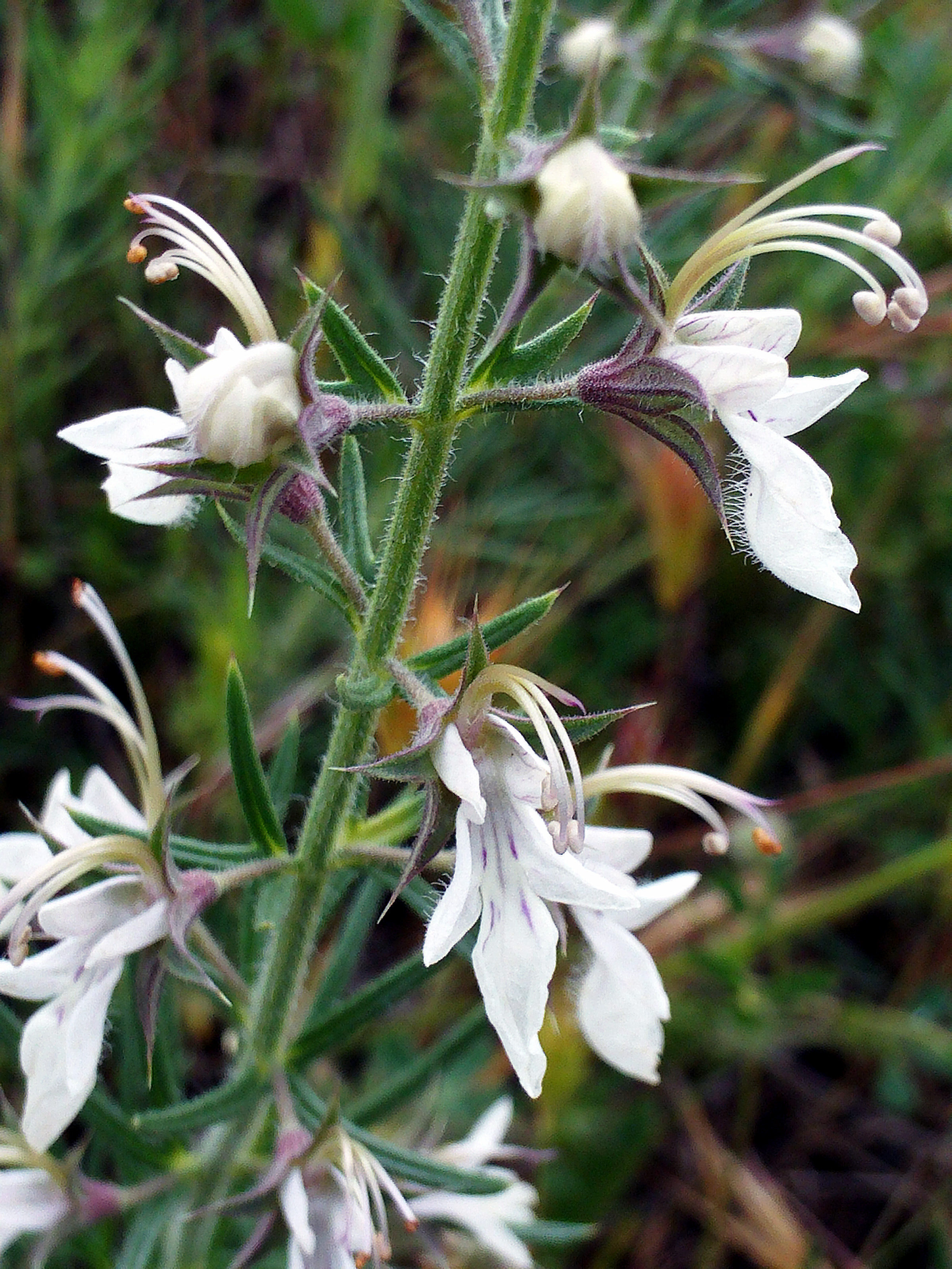 Teucrium pseudochamaepitys flower close up, Dehesa Boyal de Puertollano, Spain